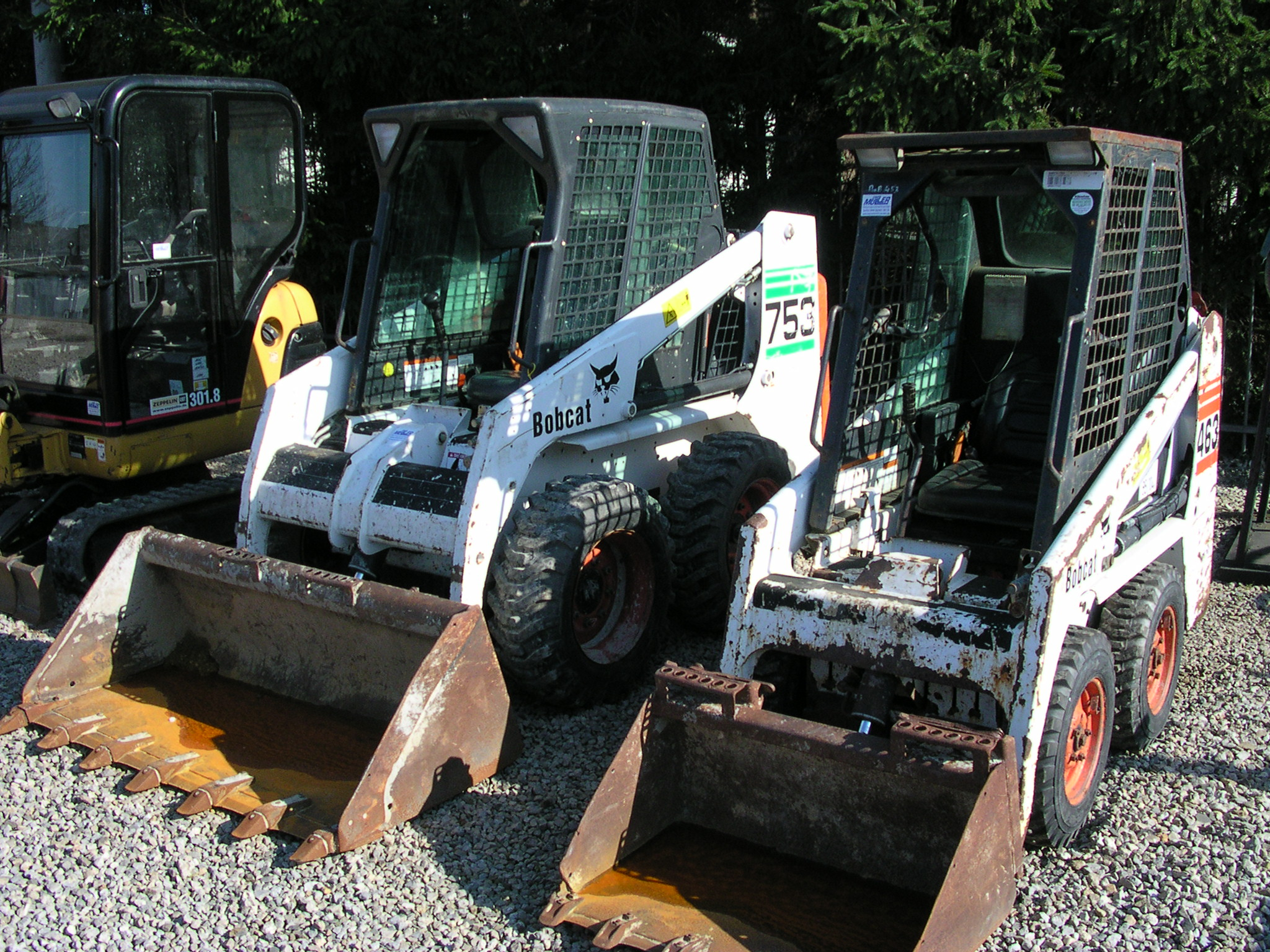 Bobcat 463 and 753 skid-steer loaders